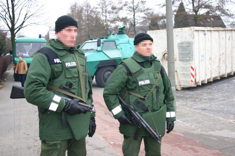 German Policemen in bulletproof vests with submachine guns. German Policemen with Heckler & Koch MP5 sub-machine guns (in Hamburg in front of a military hospital.) The MP-5 can fire in both semi-automatic (one shot per pull of the trigger), burst mode (three shots per pull) and "Full auto" or full automatic (continues to fire as long as the trigger is depressed.) This "subgun" is popular worldwide as a police small arm. Licensed as free by photographer Alexander Blum ( Interlingue: Policistes de Policie Hamburg